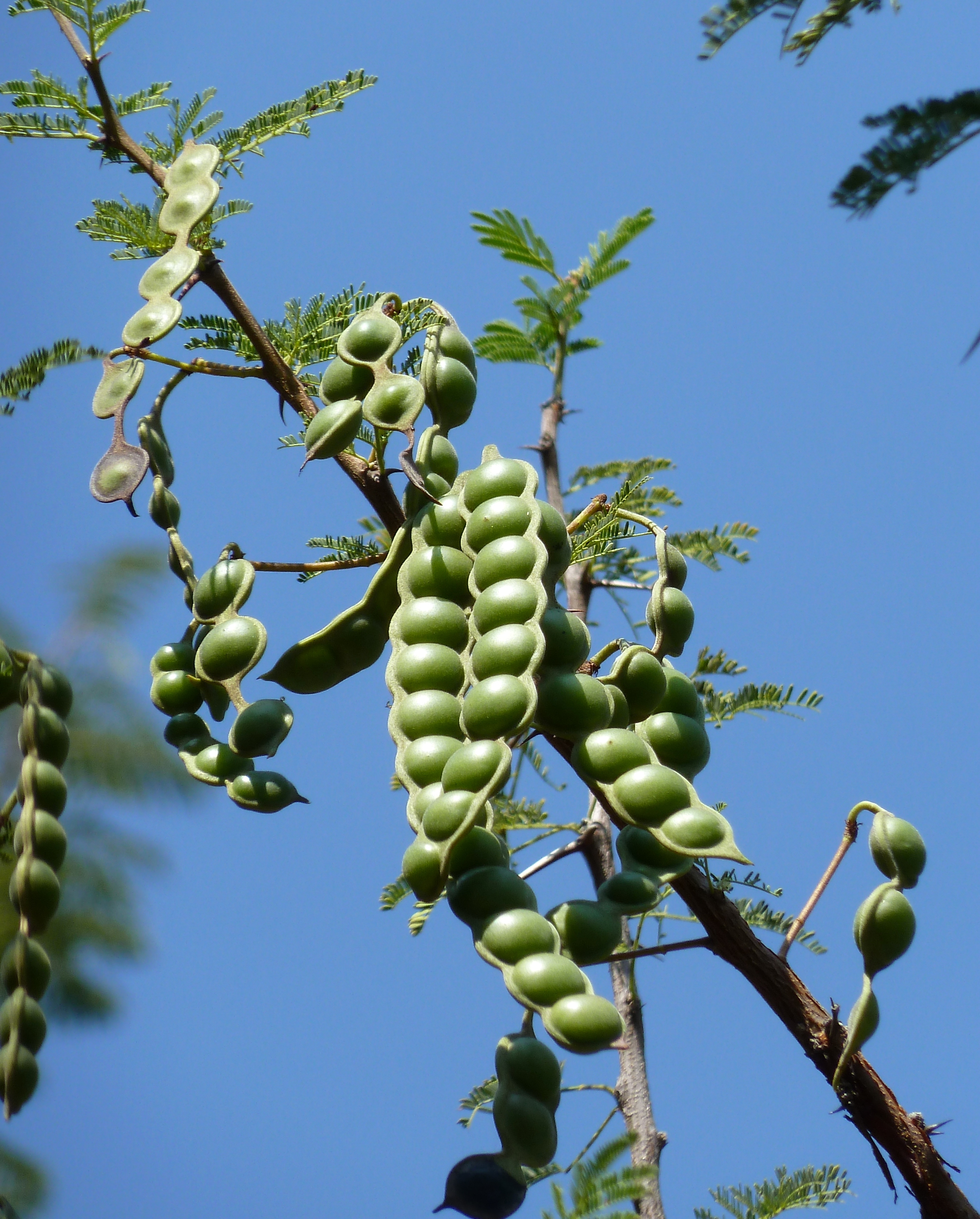 Seed pods of a Scented thorn in the gardens of the Union Buildings, Pretoria